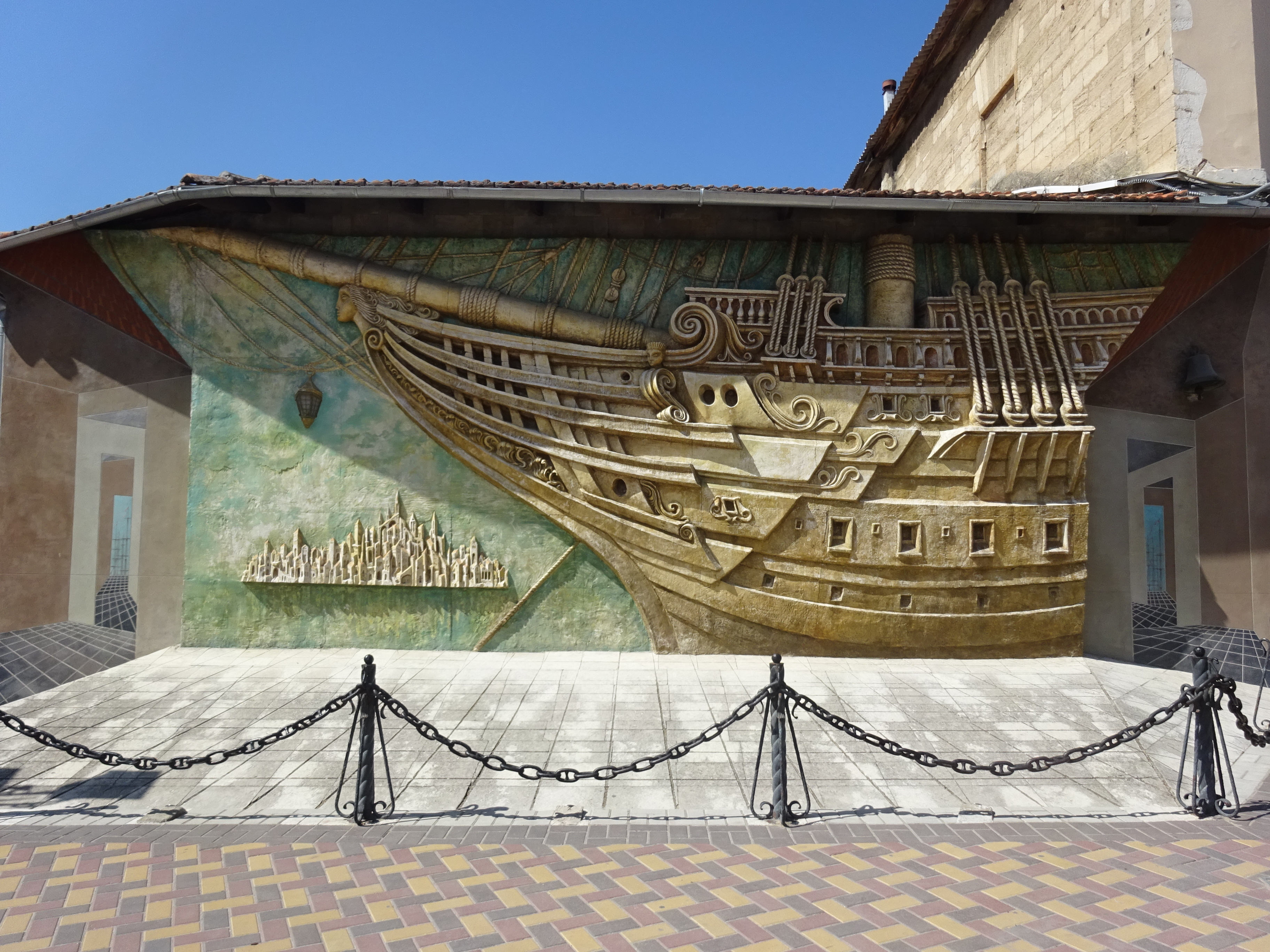 Relief on the wall of A.S. Grin museum